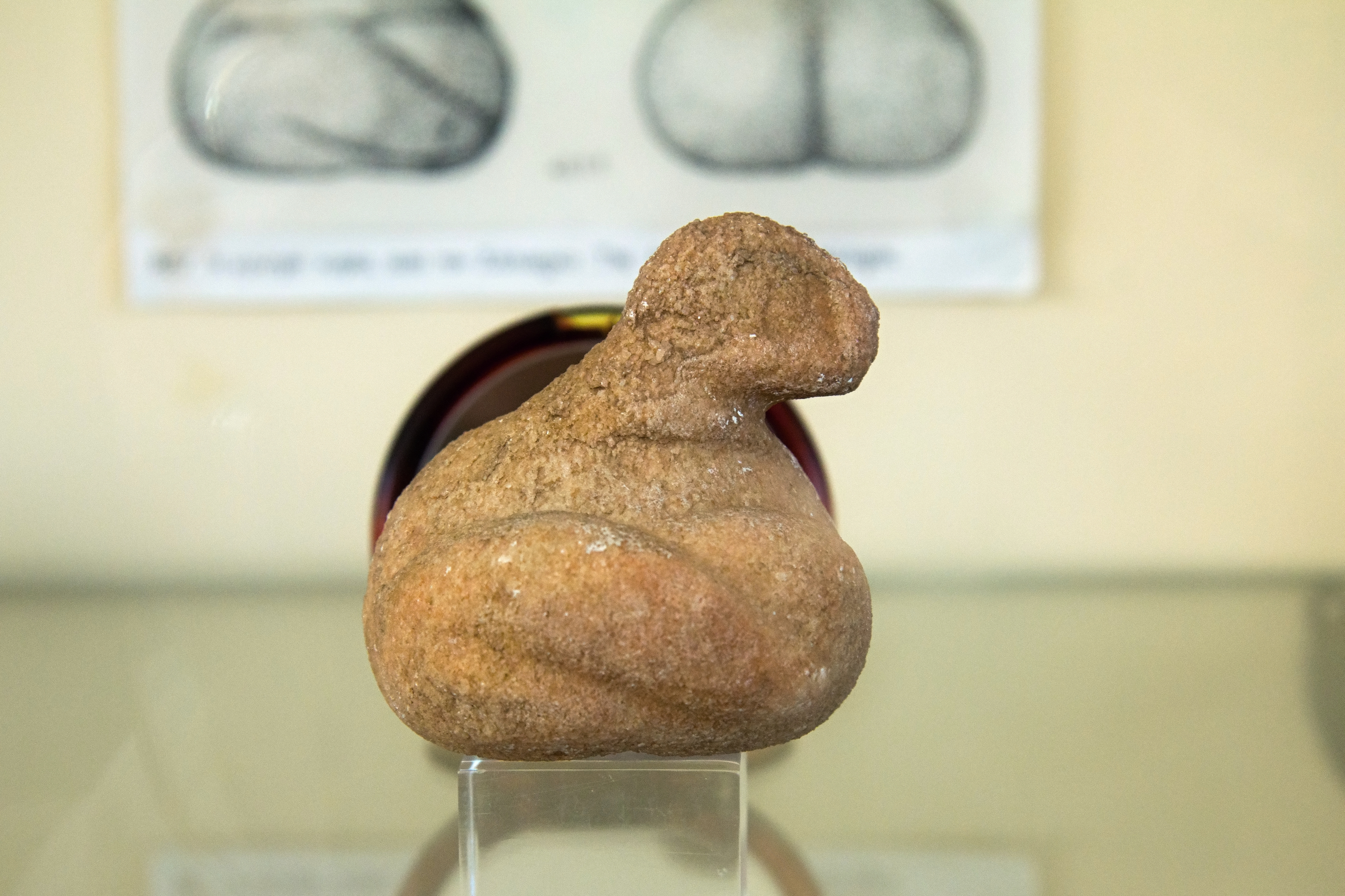 Neolithic steatopygous female figurine, "Lady of Saliagos", small marble torso from islet Saliagos. Well preserved entire lower half of the body, but from the upper half remained only her right arm with part of the hand. Ca 5000 BC. Archaeological museum of Paros, 887.